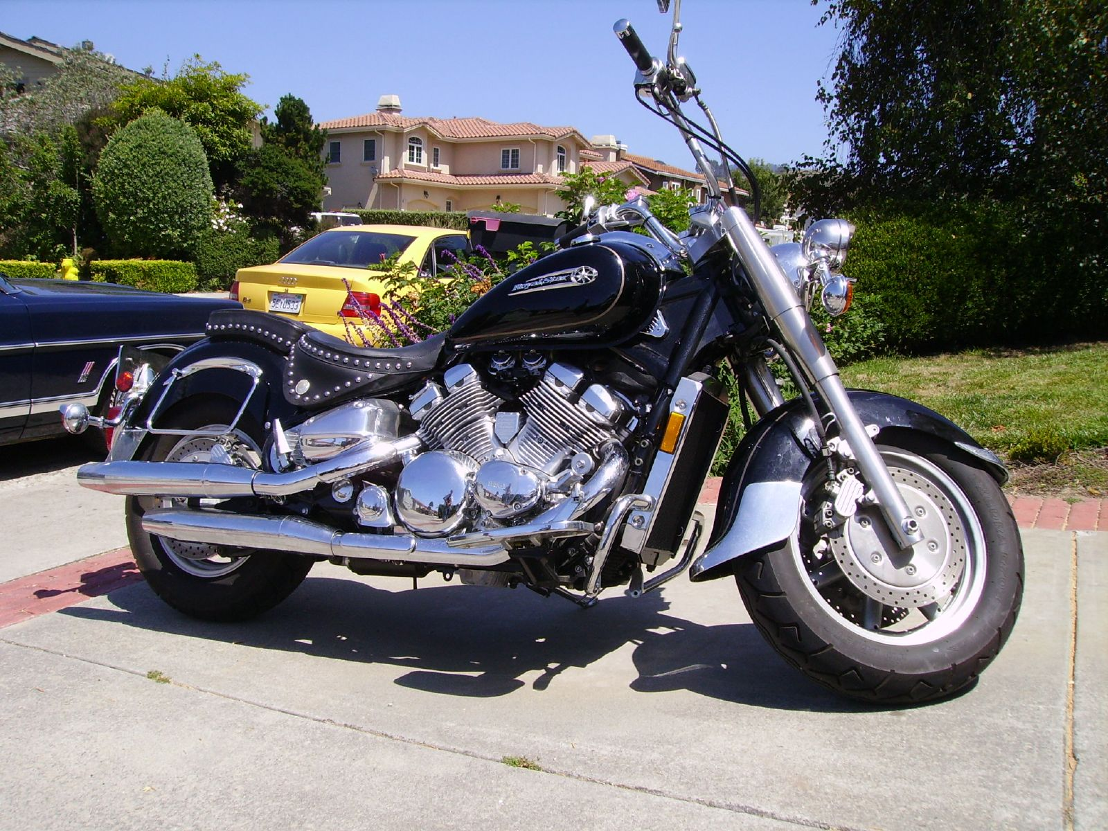 1996 Yamaha Royal Star Motorcycle